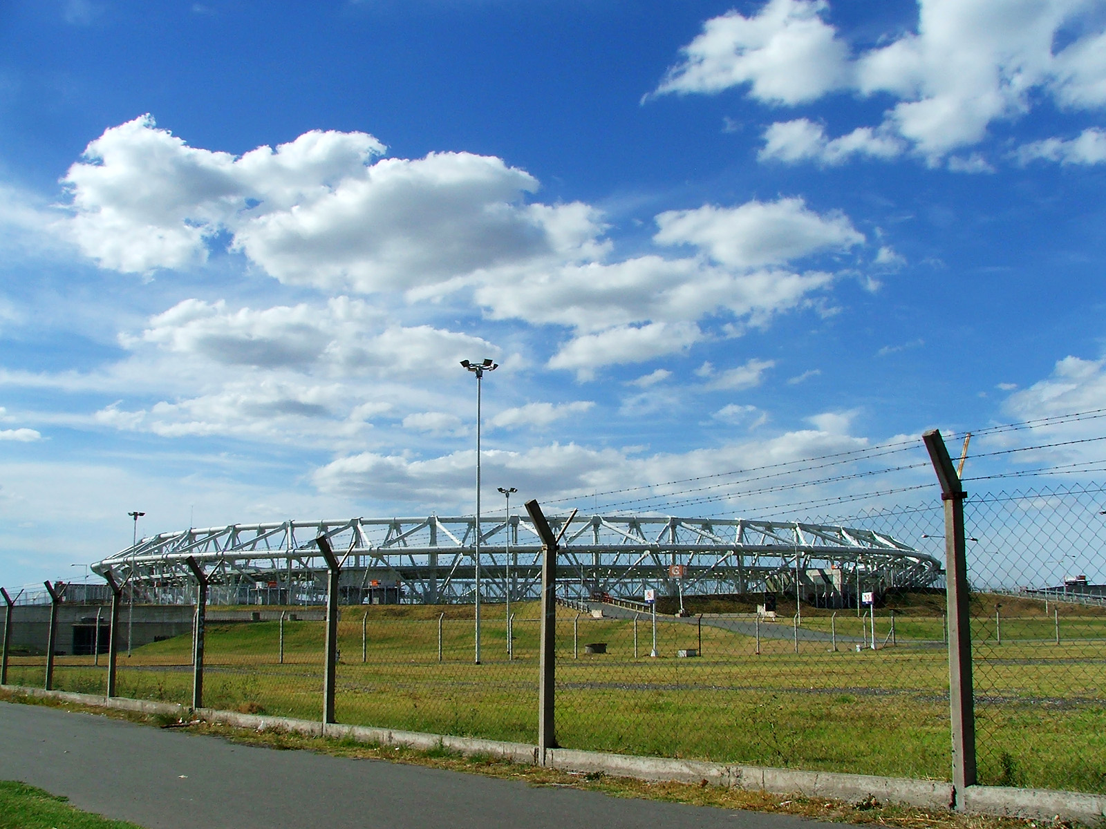 Estadio Ciudad de La Plata. Provincia de Buenos Aires, Argentina.